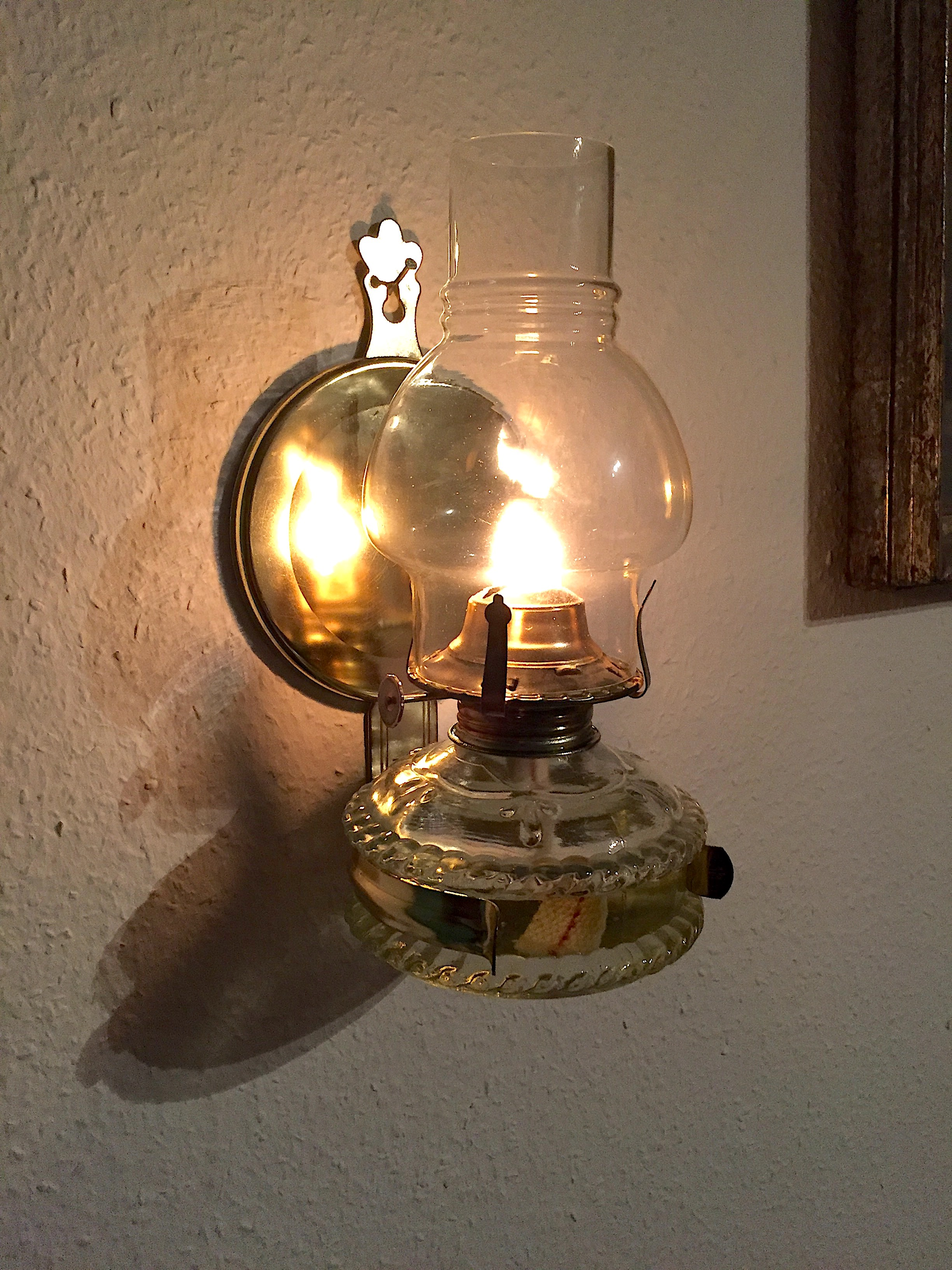 Glas Oil Lamp with flat candle wick